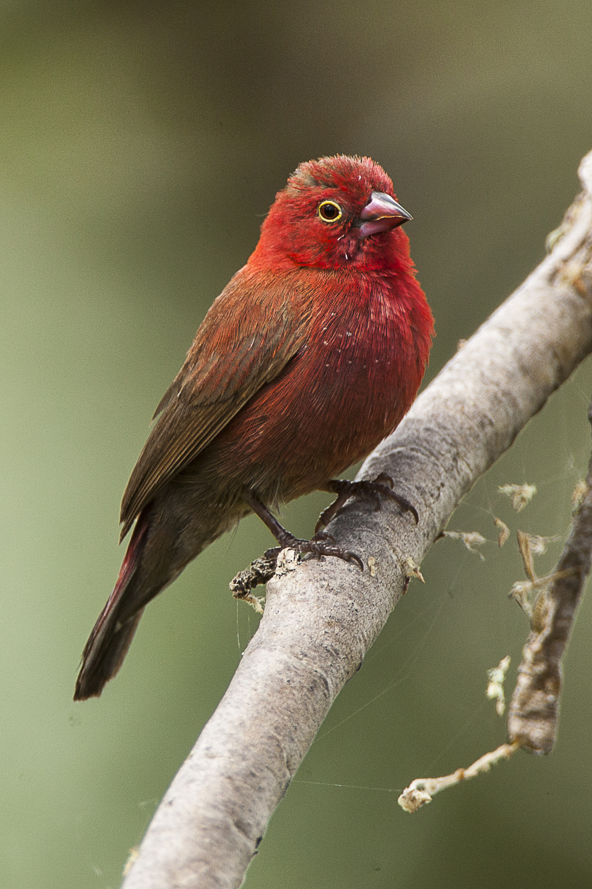 Red-billed Firefinch - Kenya_NH8O1073